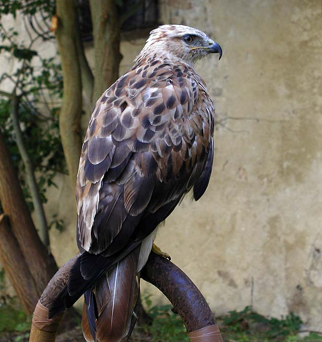 This is of my own making.